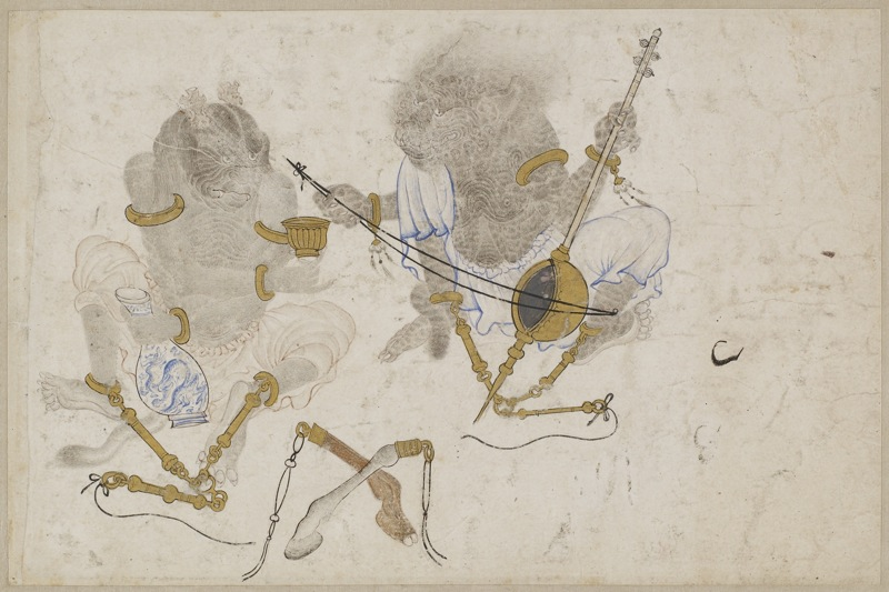 Two demons fettered, one plays kamānča, Iranian spike fiddle. Drawing on paper, 15th century, Iran or Central Asia (orig. size 22.1 × 14.6 cm). Smithsonian Institution, Freer Gallery of Art and Arthur M. Sackler Gallery